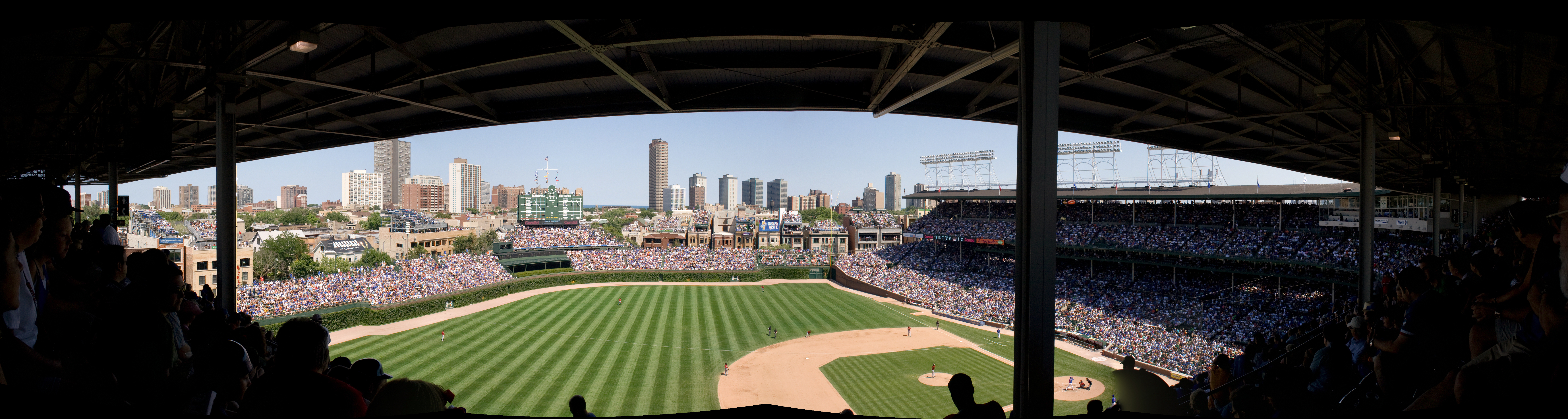 Panoramic view from Wrigley Field's upper deck